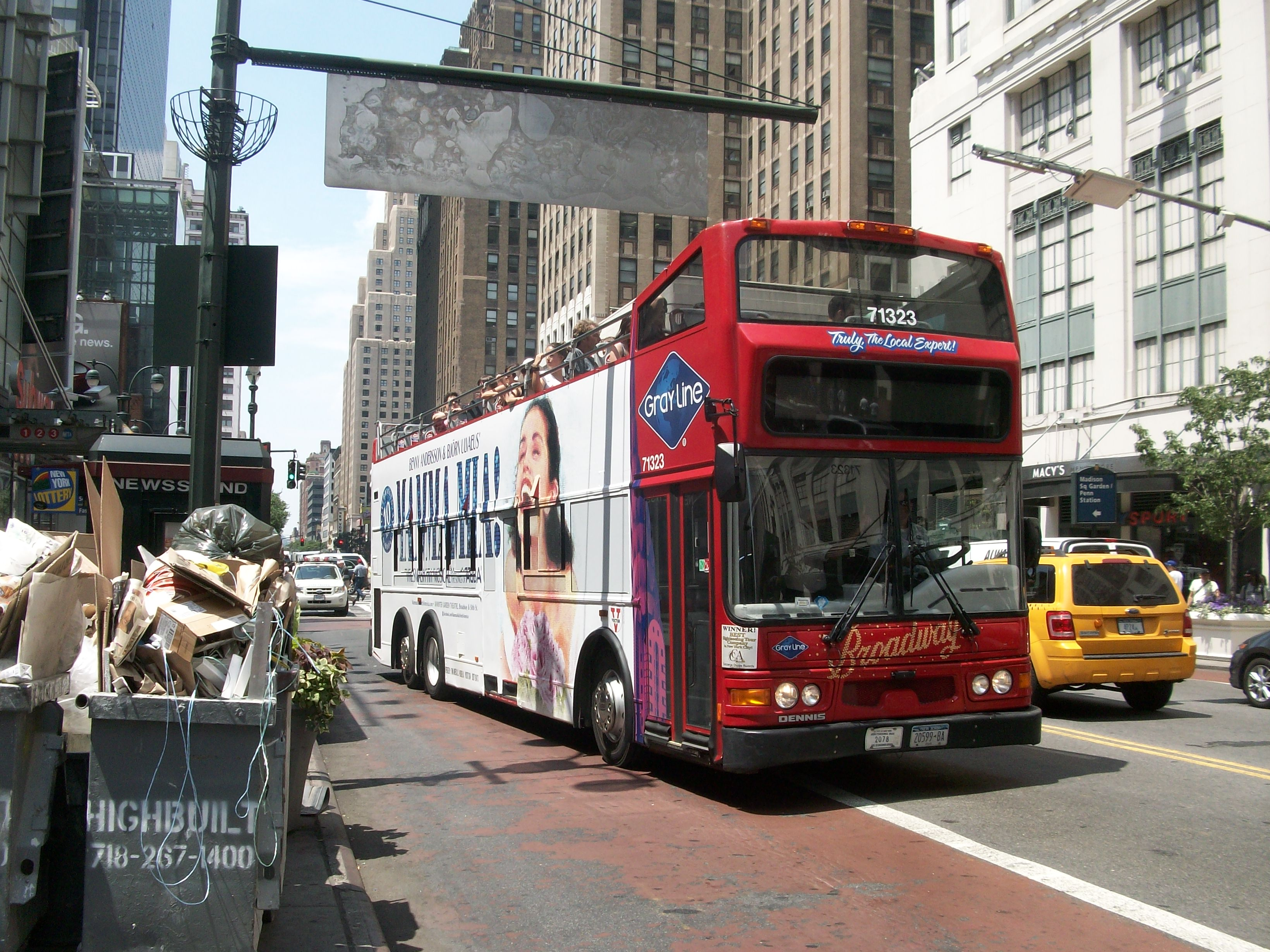 Double decker tour bus in New York